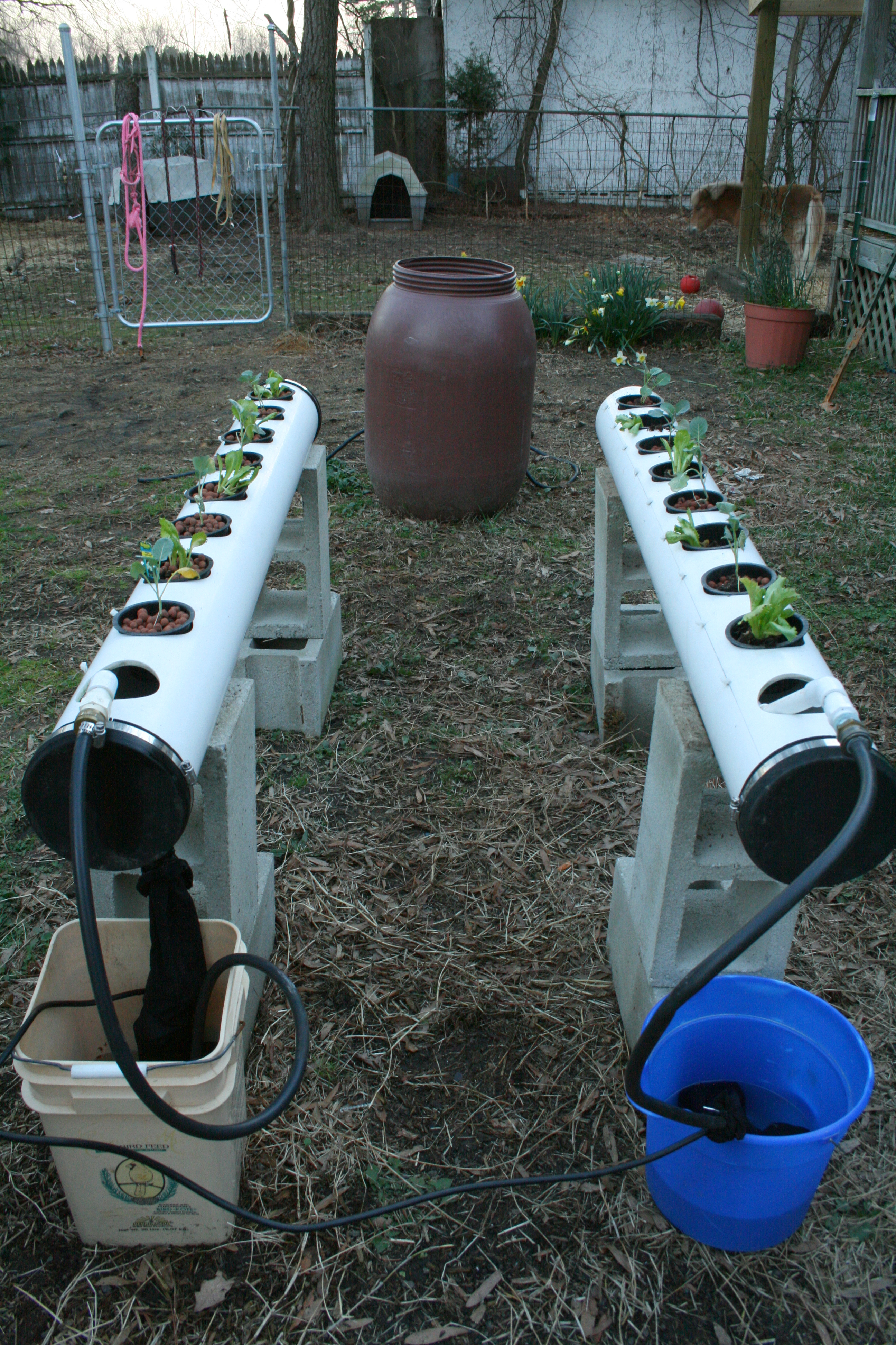 Rix Dobbs' home-made nutrient film technique hydroponics system in Durham, North Carolina.